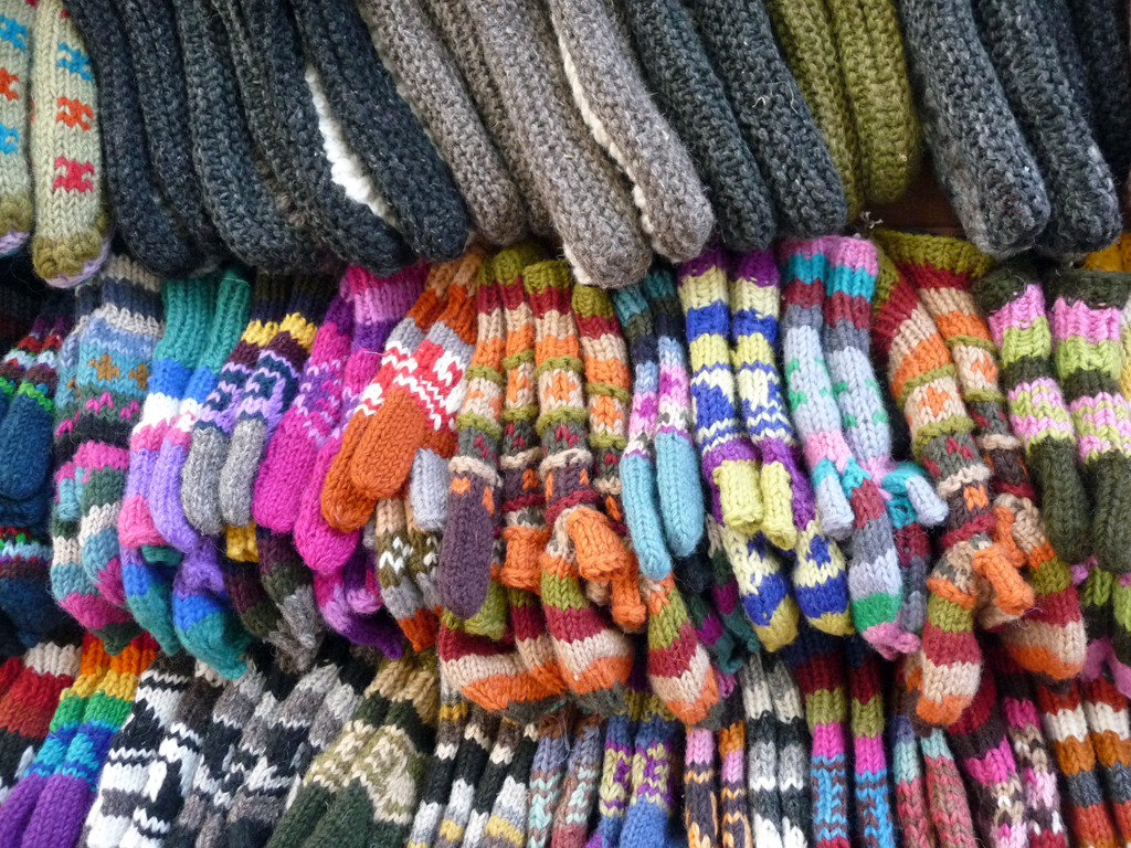 Wool for sale, Kathmandu, Nepal